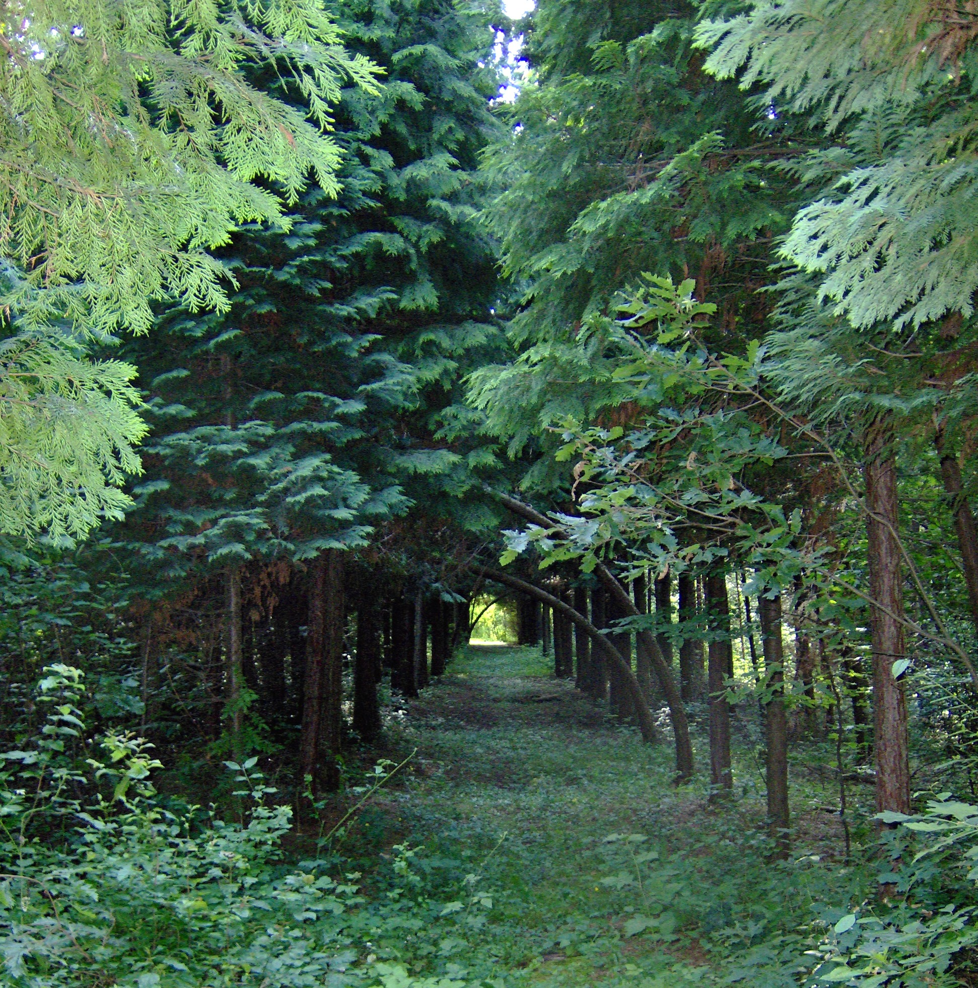 Arborétum Felaťa in Rykynčice, Slovakia